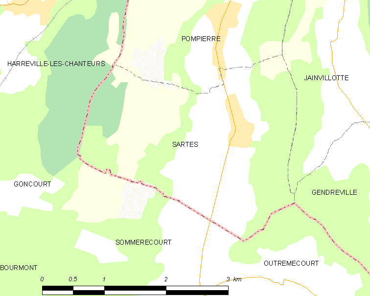 Map of French municipality Sartes